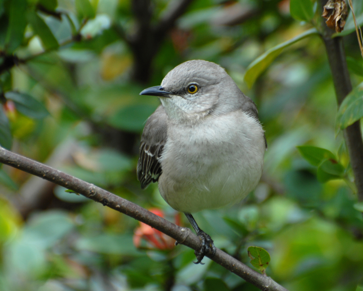 A Northern Mockingbird at rest in St. Petersburg, Florida